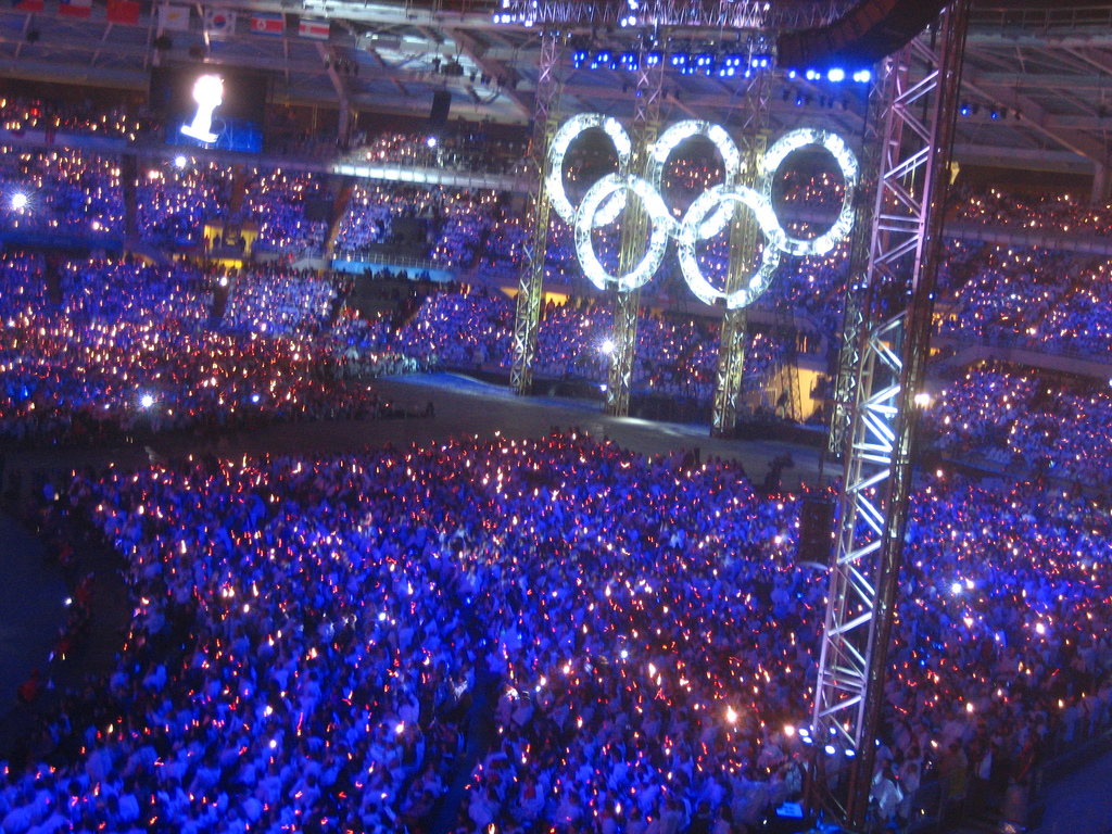 The crowd was lighting its flashlights to mark the extinguishing of the Olympic torch.